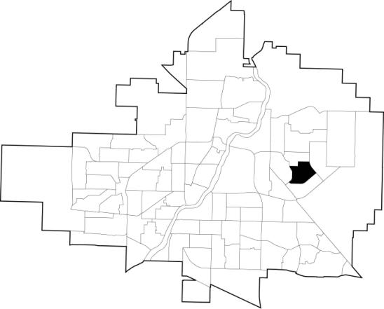 A map showing the location of the Erindale neighbourhood in relation to the other neighbourhoods in Saskatoon.